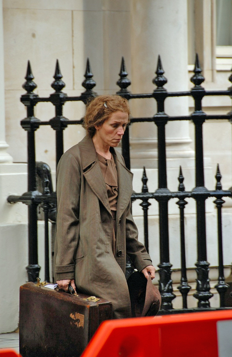 Frances McDormand, Melanie Upfoot, "Girls Just Want To Have Sums".